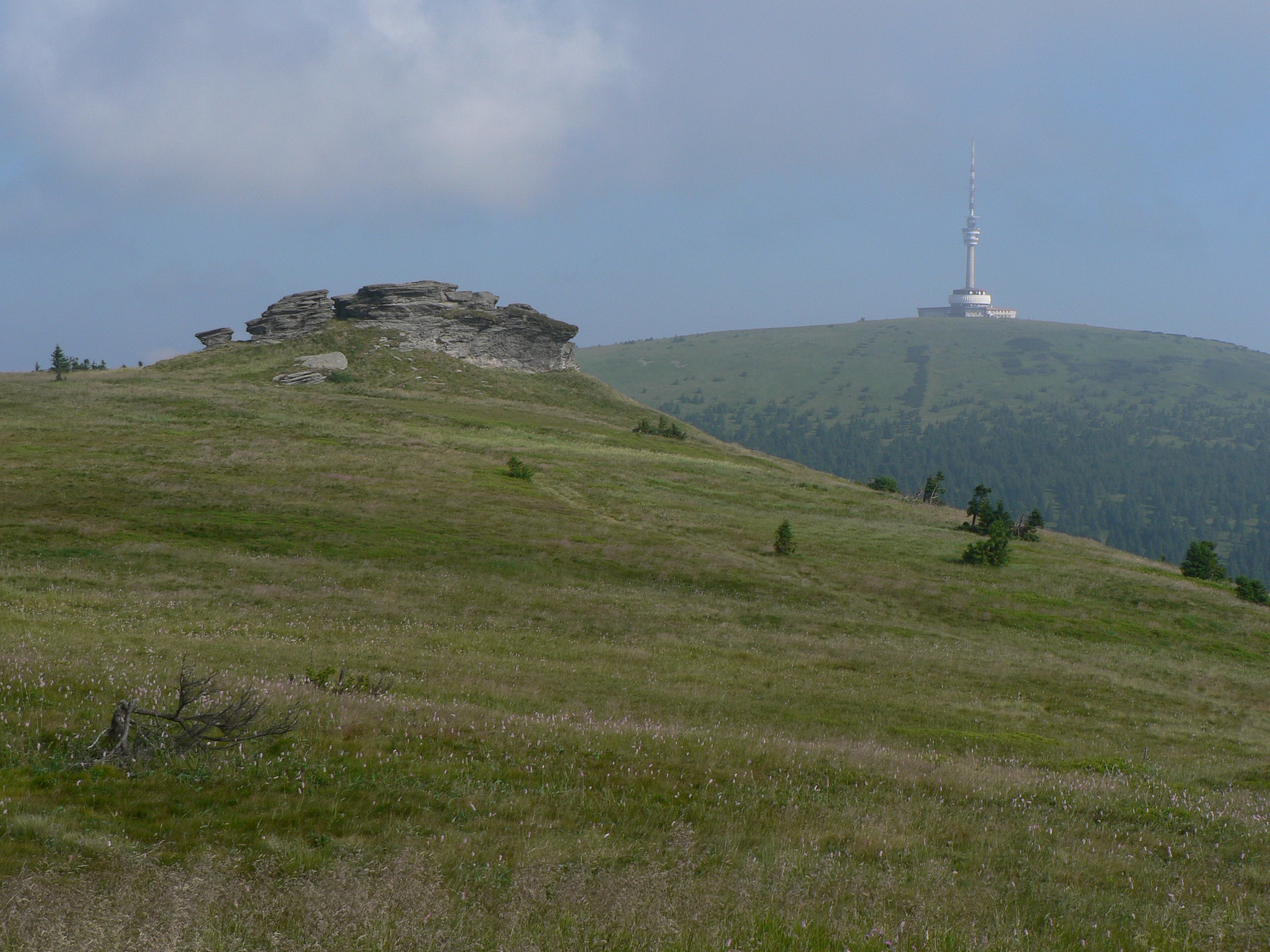 Petrovy kameny and Praded, Hruby Jesenik mountains, Czech republic.